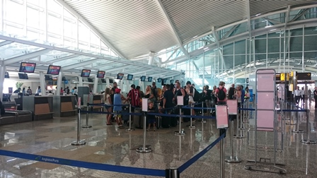 Check-In area of Ngurah Rai International Airport, Denpasar, Bali, IndonesiaBahasa Indonesia: Area check-in Bandar Udara Internasional Ngurah Rai, Denpasar, Bali, Indonesia